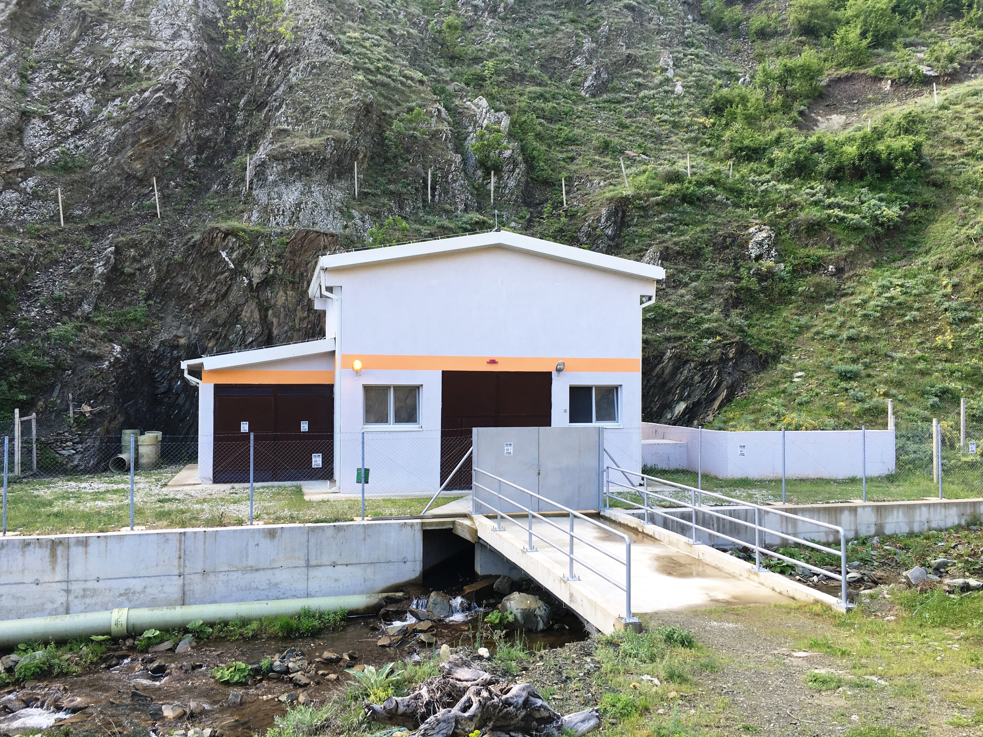 Small hydroelectric power station on Gradečka River, Macedonia.